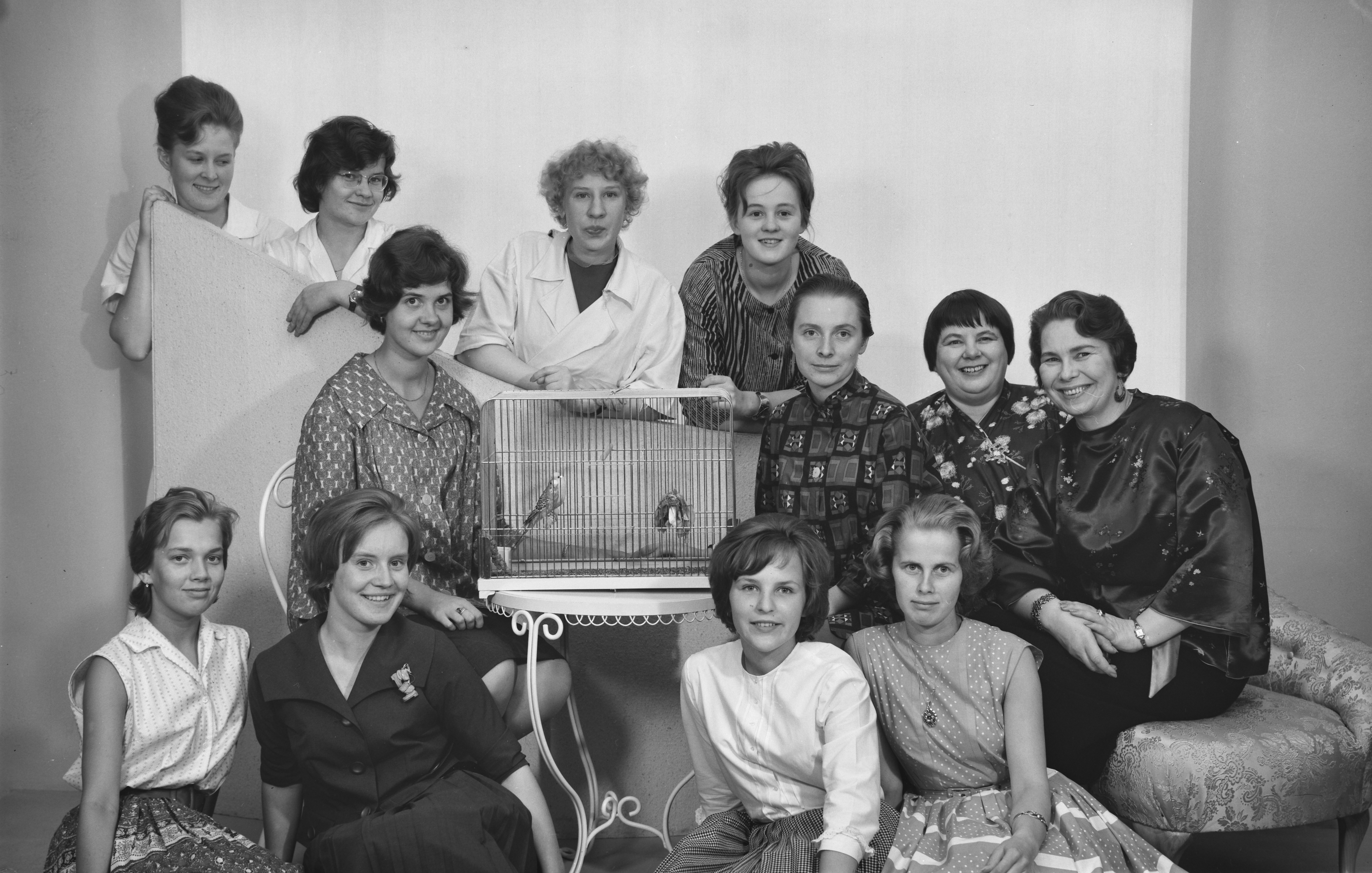 Photograph of the personnel of Kuvasiskot photographic studio in Lahti, Finland. From the right, the owners Margit Ekman and Eila Marjala.